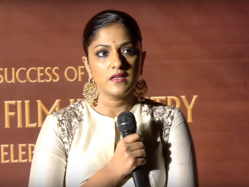 Indian filmmaker Swapna Dutt addressing the gathering at the success meet of the 2018 Indian bilingual film Mahanati (Telugu)/Nadigaiyar Thilagam (Tamil)